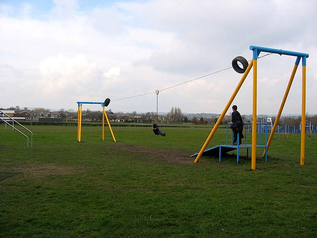 Zipper Slide, Moor Park